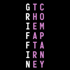 Griffin Theatre Logom copyright 2015